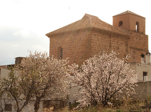 Perspectiva de la iglesia en el mes de Febrero -Almendro en Flor